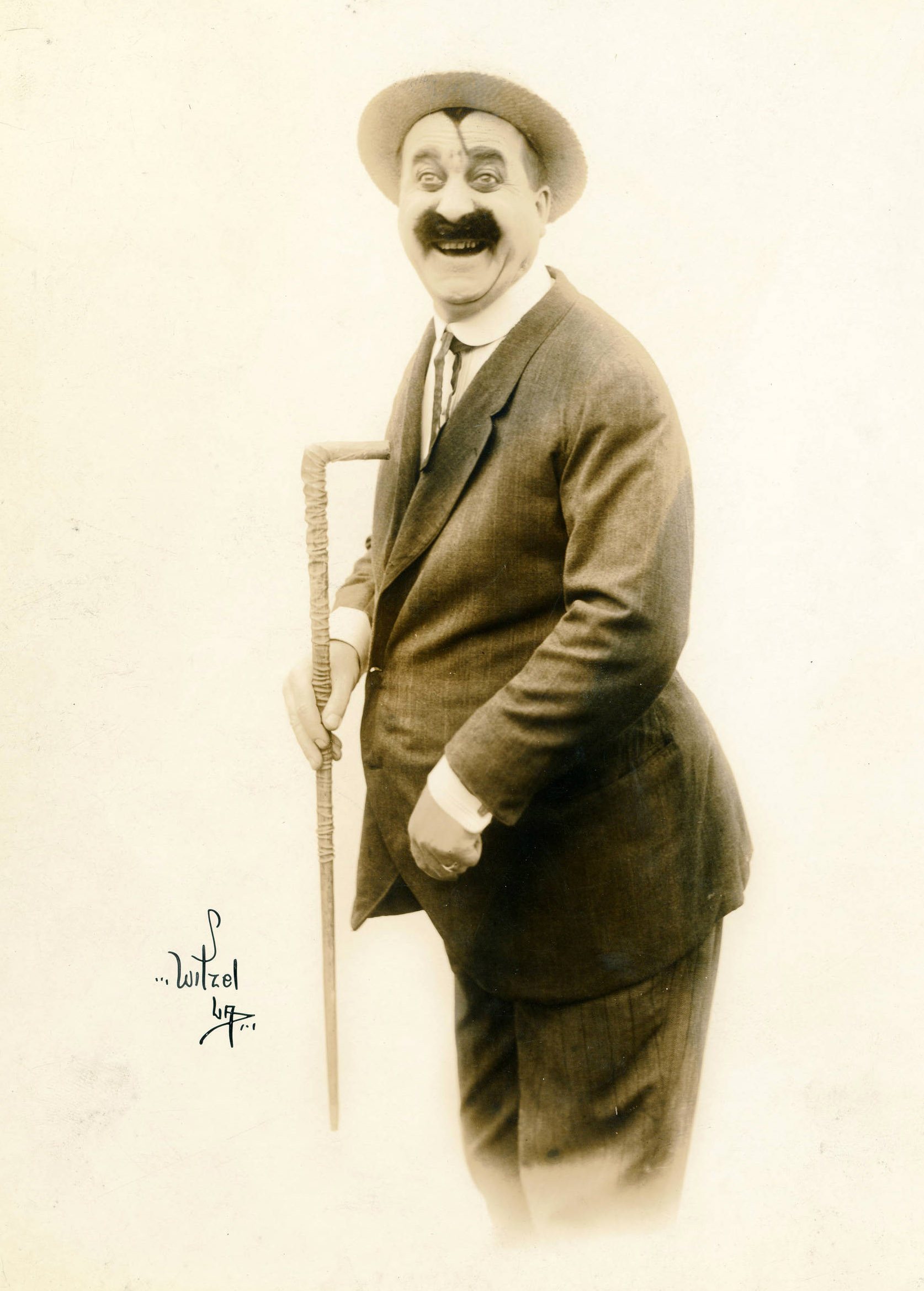 Mack Swain 1920 Promotional photo